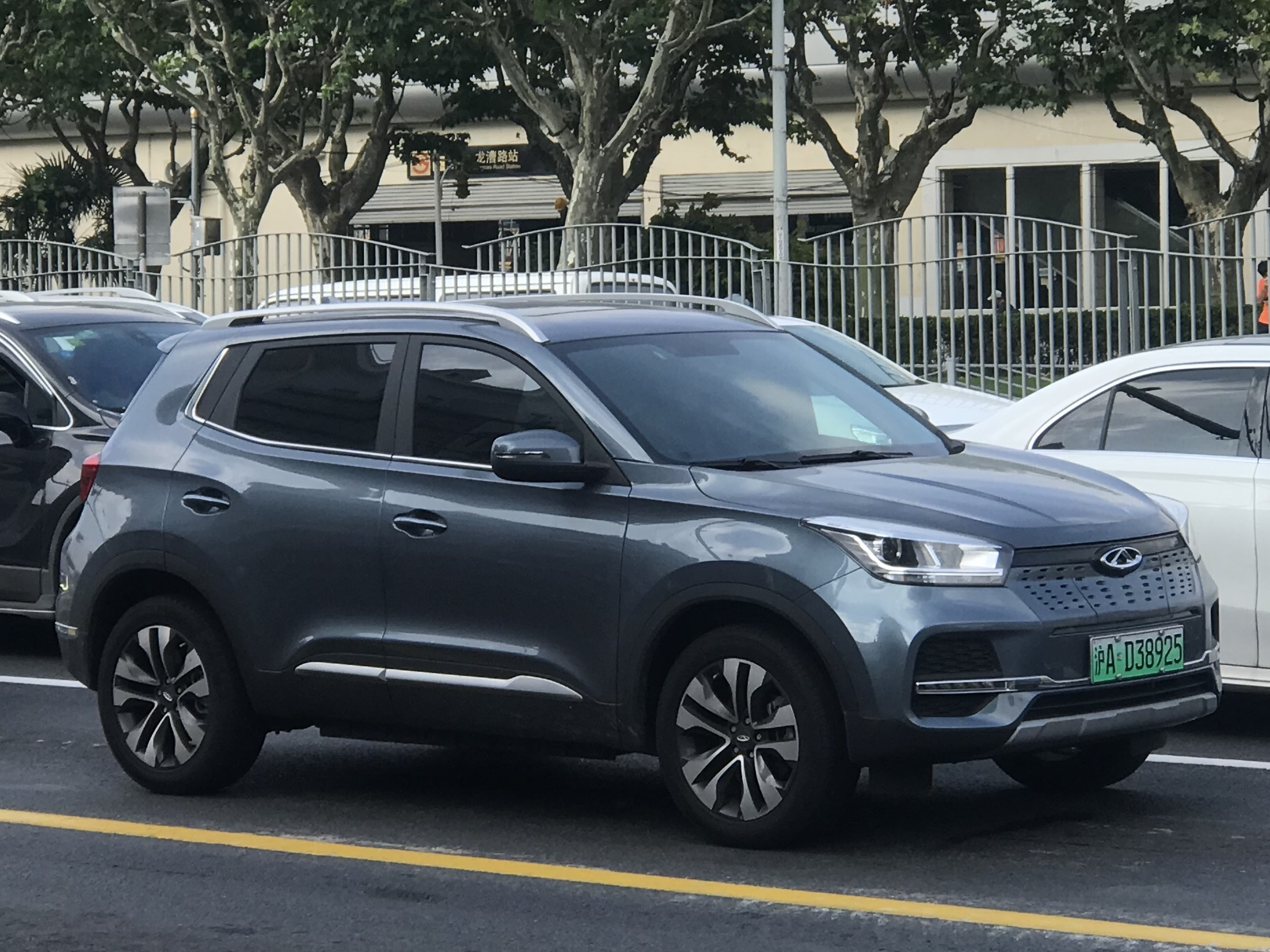 Chery Tiggo e, electric crossover based on the Chery Tiggo 5x